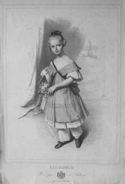 Maria Elisabeth, Princess of Saxonia, (1830-1912) 'Lithograph by Sprinck, after a painting by Vogel, 1837Unknown elisabeth prinzessin von sachsen, herzogin von genua lithographie von sprinck nach einem gemälde von vogewl, 1837